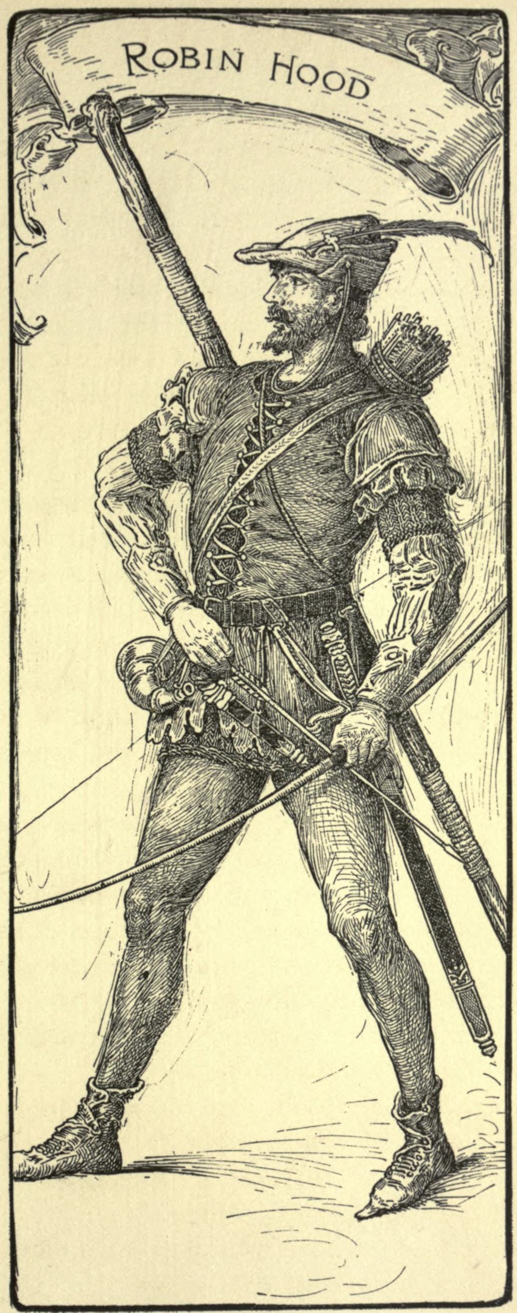 "Robin Hood" (source, source), an illustration by Louis Rhead, from his novel Bold Robin Hood and His Outlaw Band: Their Famous Exploits in Sherwood Forest (1912)